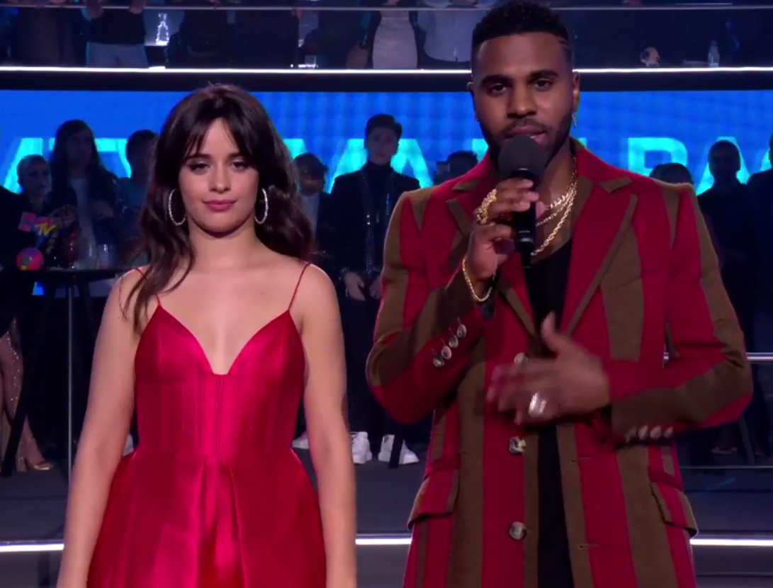 Camila Cabello & Jason Derulo presenting at MTV EMAs 2018